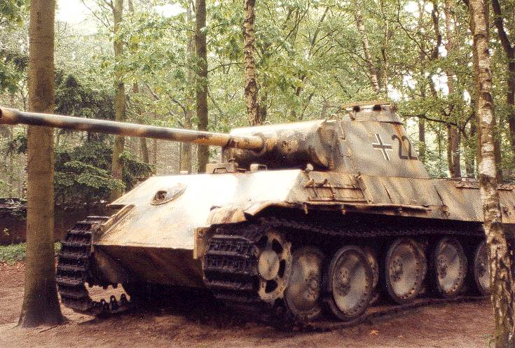 A German Panzer V Ausf.G "Panther" at the Nationaal Oorlogs- en Verzetsmuseum (Overloon War Museum), Overloon, the Netherlands. The tank of the German 107th Panzer Brigade was knocked out by the 2nd Battallion, East Yorkshire Regiment, on 13 October 1944 at Overloon.